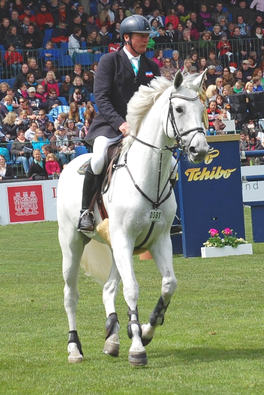 German rider Thomas Voß with Carena, "Championat von Hamburg", CSI 5* Hamburg 2012